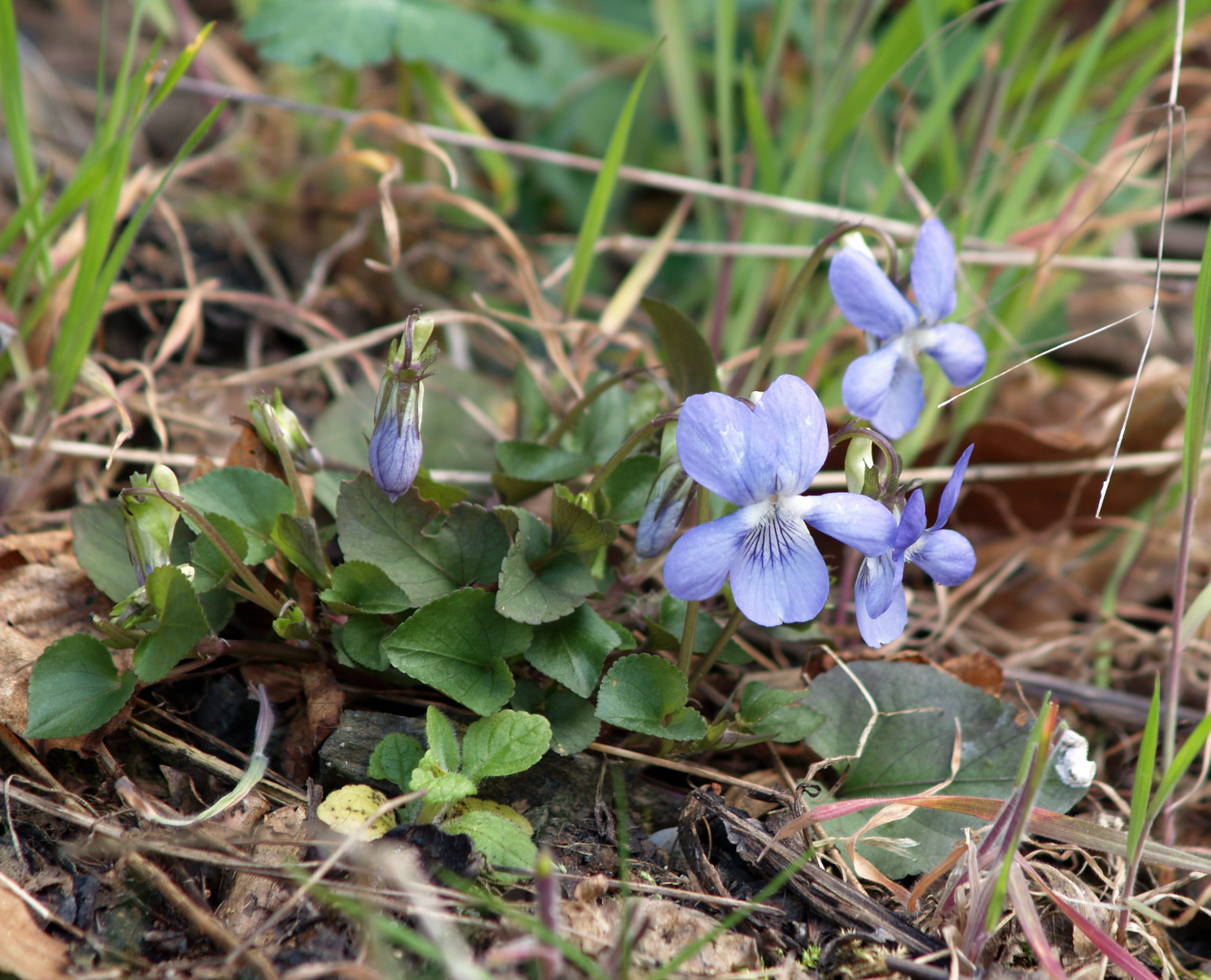 Viola riviniana, whole plant, found in Chemnitz, Germany)